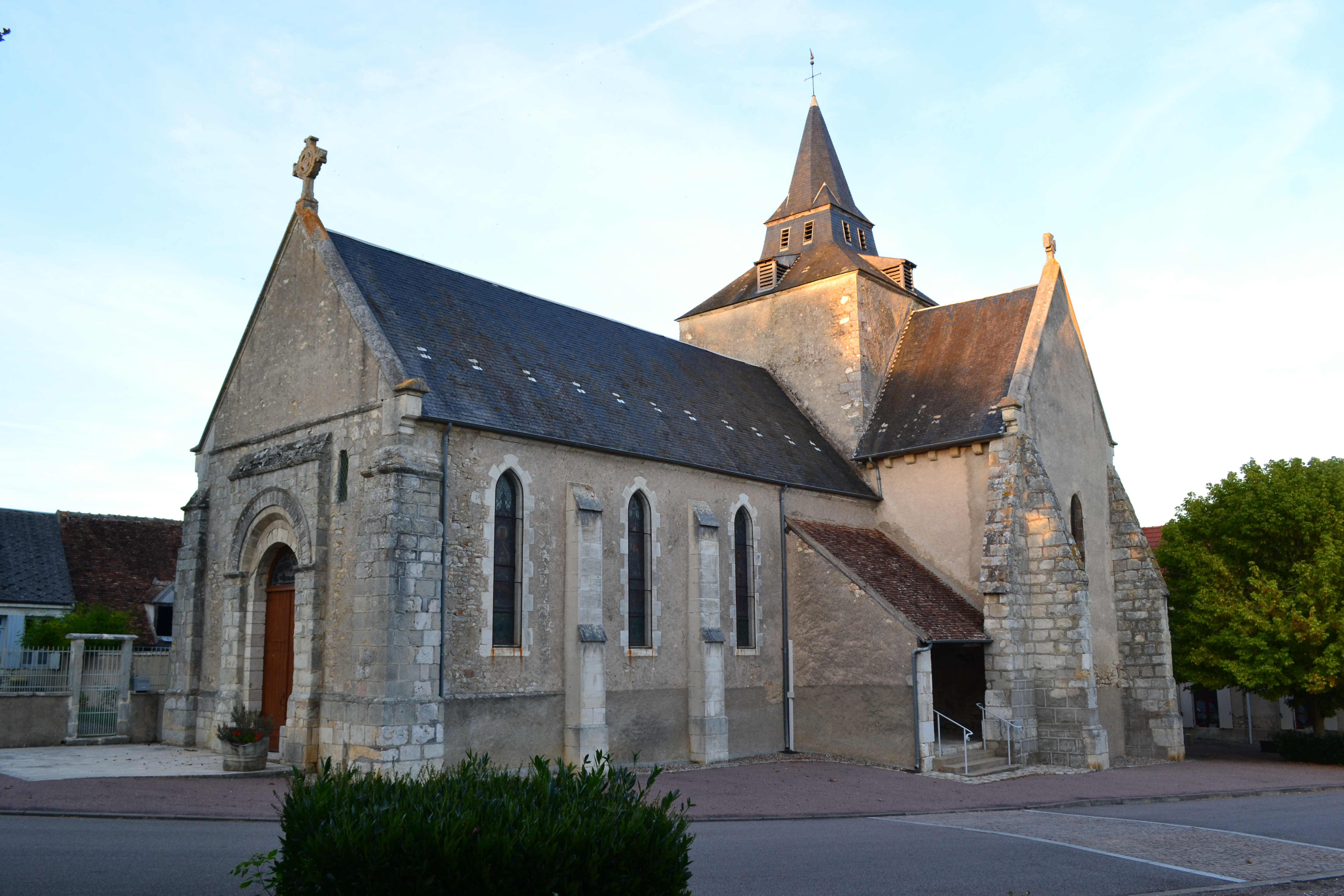 Eglise saint martin et saint roch à ids saint roch